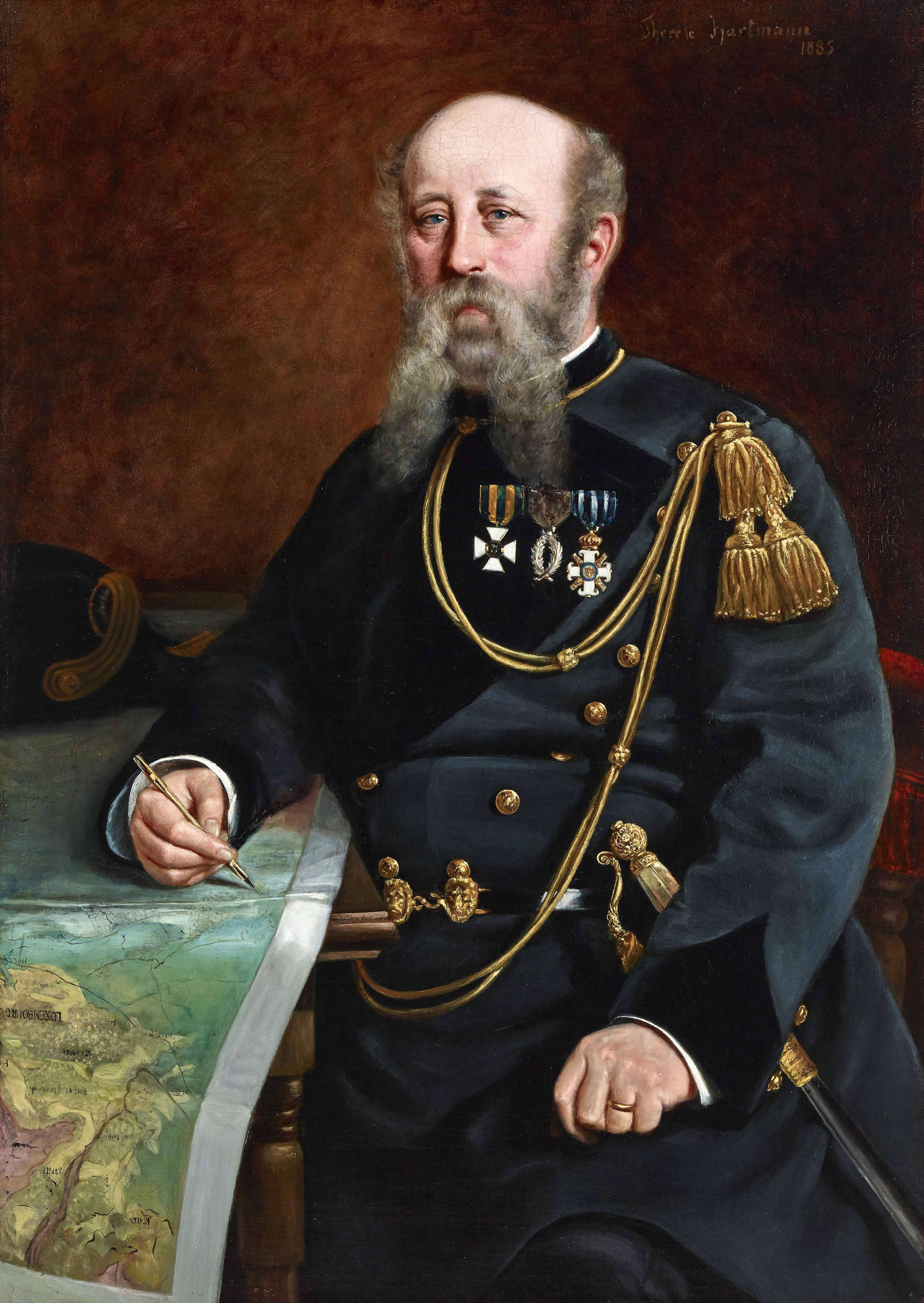 Geologist Pierre Mathias Siegen, co-author of the first geological map op Luxembourg, painted in 1886 by Marie-Thérèse Glaesener-Hartmann (1858-1923). huile sur toile, 117,5 x 82 cm, Musée national d'histoire et d'art, 1959-059/001.